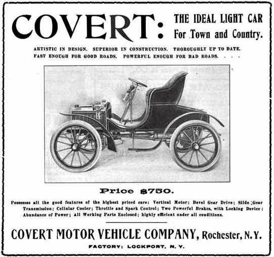 Covert Motor Vehicle Company of Rochester, New York - 1903